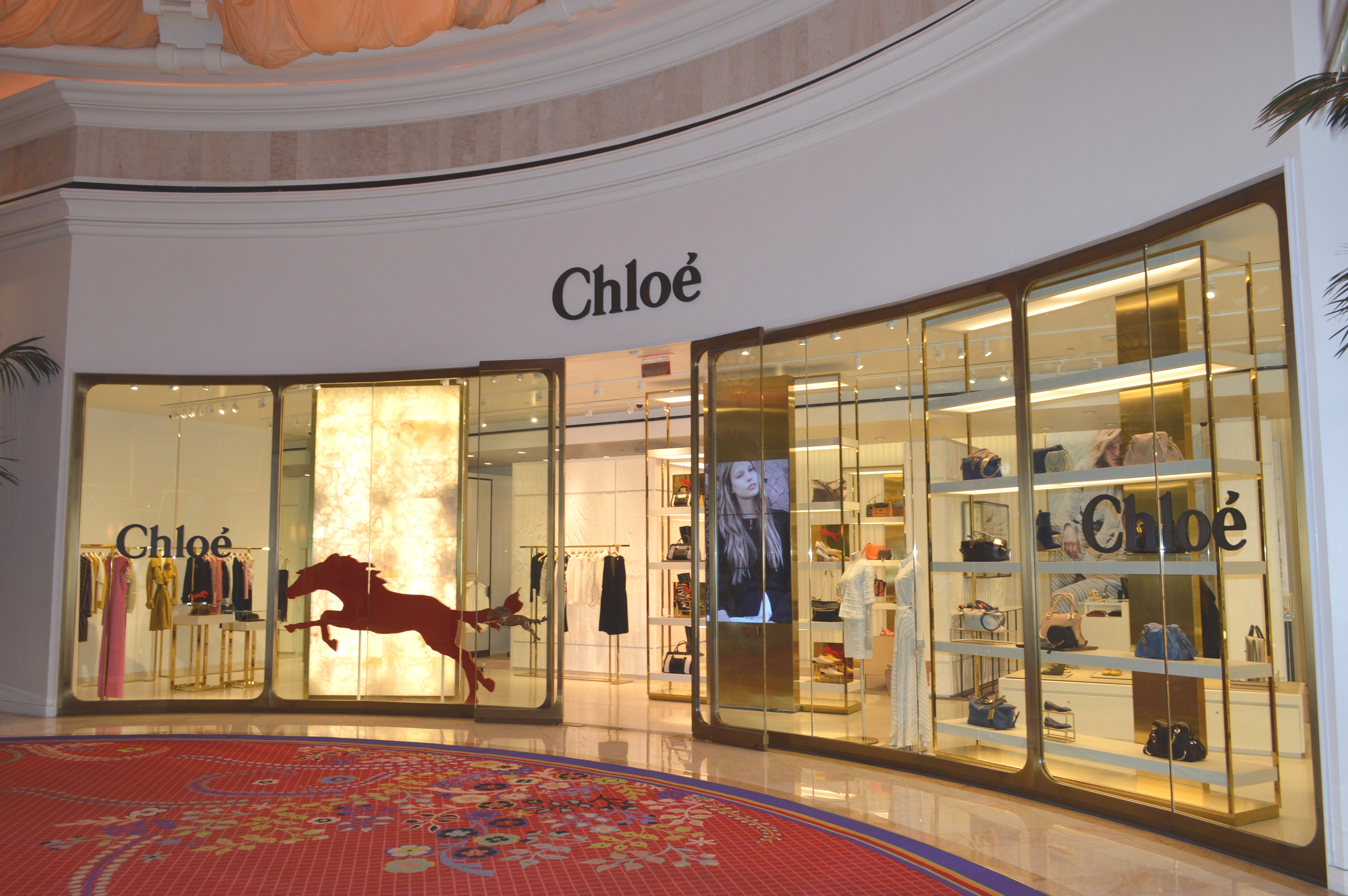 Chloé at Wynn Las Vegas Esplanade.[1] The red horse is for the 2014 Chinese New Year celebration.